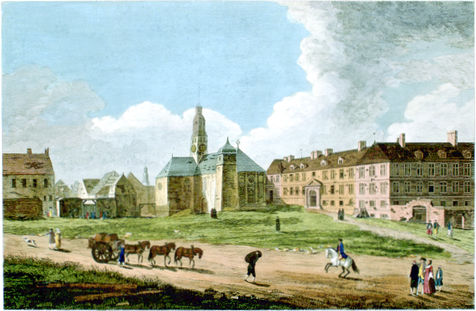 A View of the Jesuits College and Church